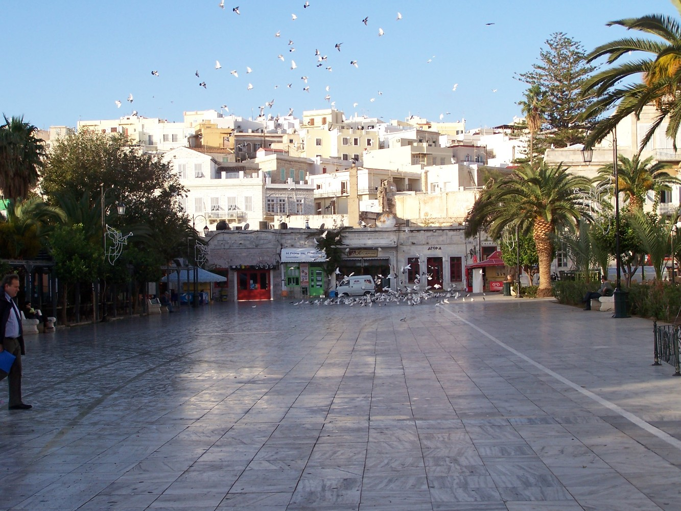 Plateia Miaouli. Plateia Miaouli in Ermoupolis Syros Greece, Greece.